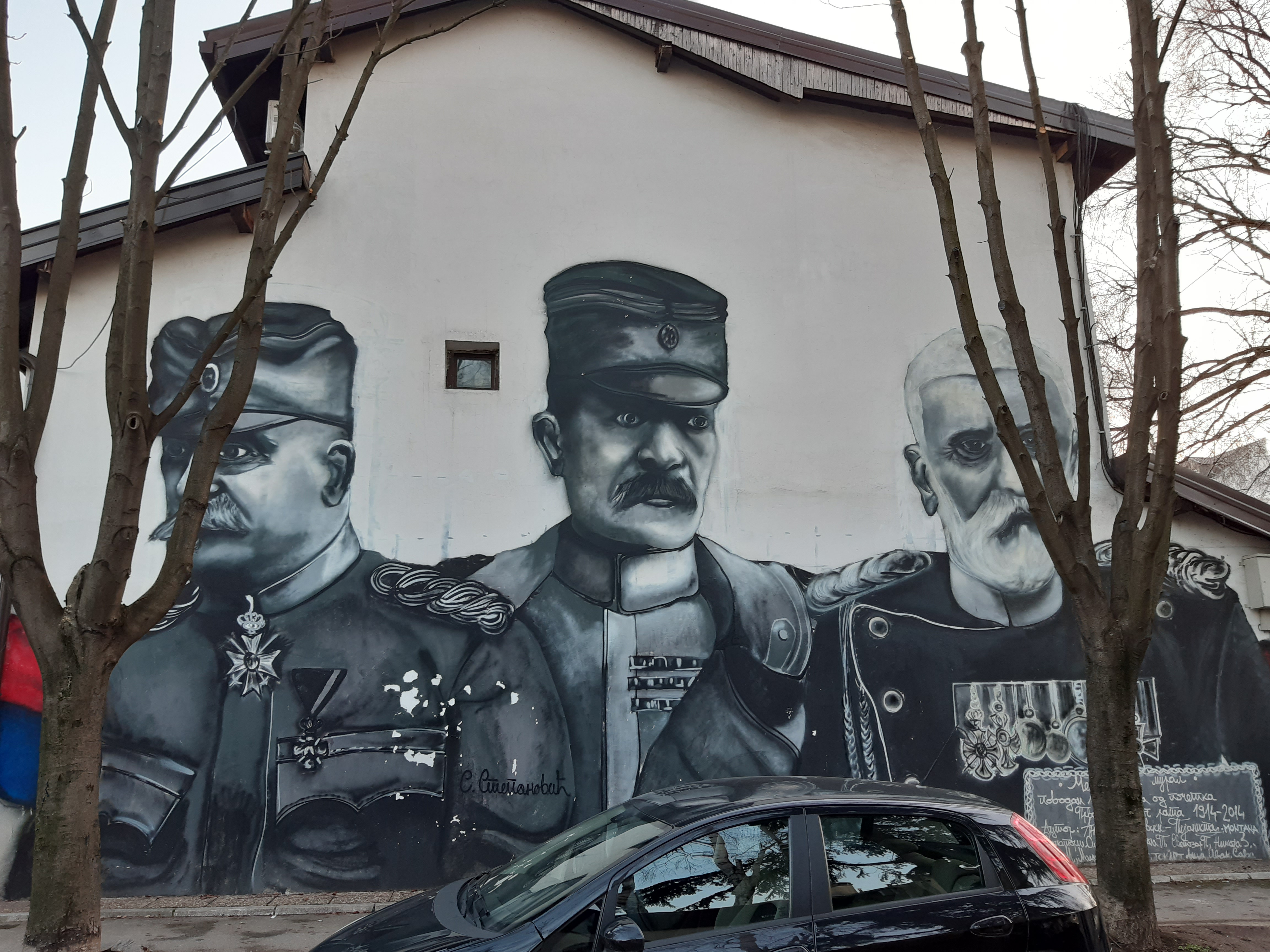 Wall art of the most famous Serbian Generals.